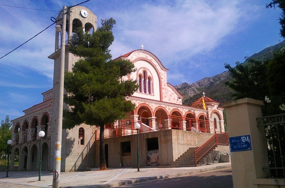 The Dionysos church at the settlement of Dionysos, at the Municipality of Dionysos of Attica.